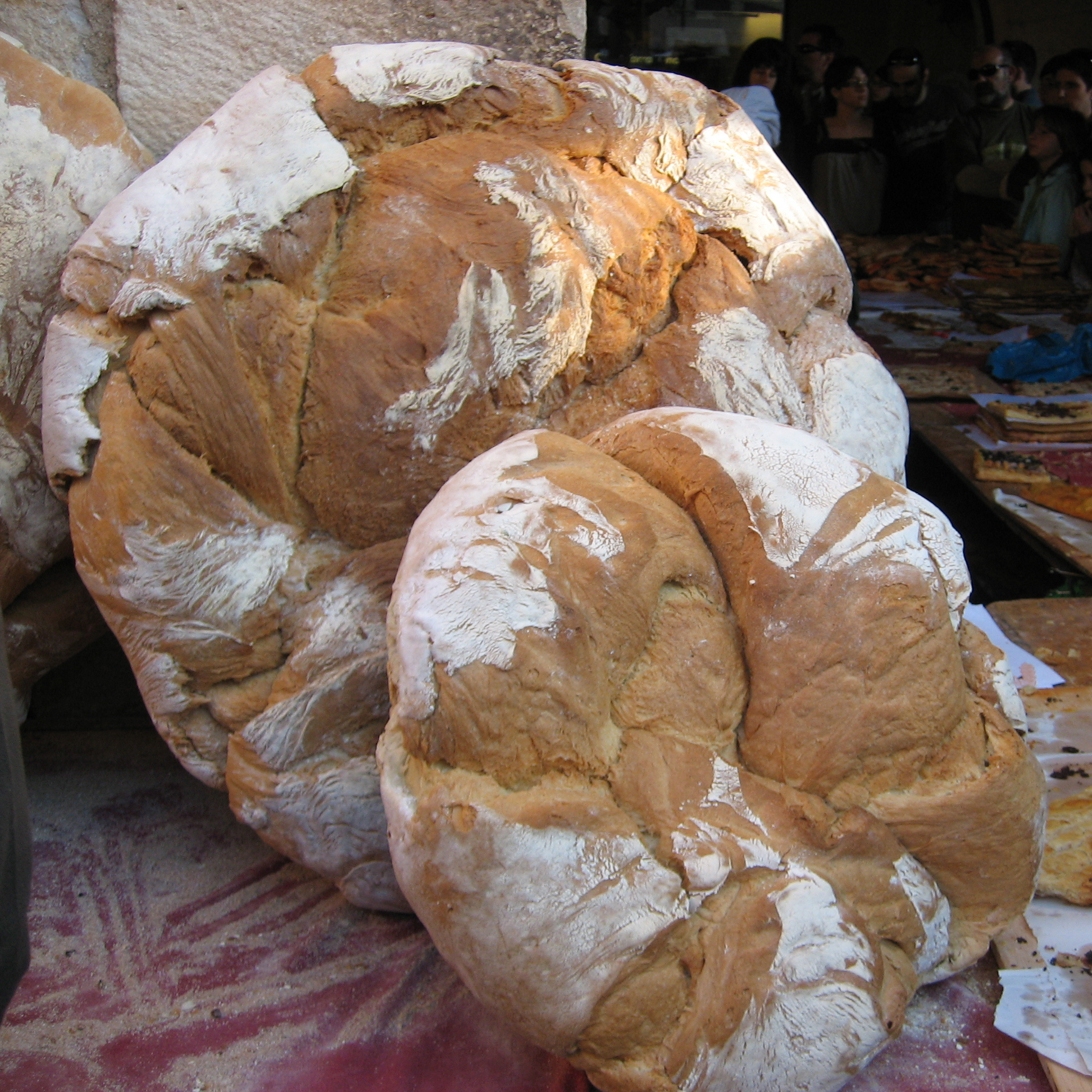 Rustic bread - Medieval Market of Montblanc (Catalonia)